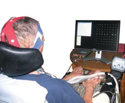 A brain-computer interface (BCI) system This brain-computer interface (BCI) system assists patients who are completely paralyzed from severe neuromuscular disorders such as Lou Gehrig's disease, brainstem stroke, or high-level spinal cord injury. Photo courtesy of the Wadsworth Center.